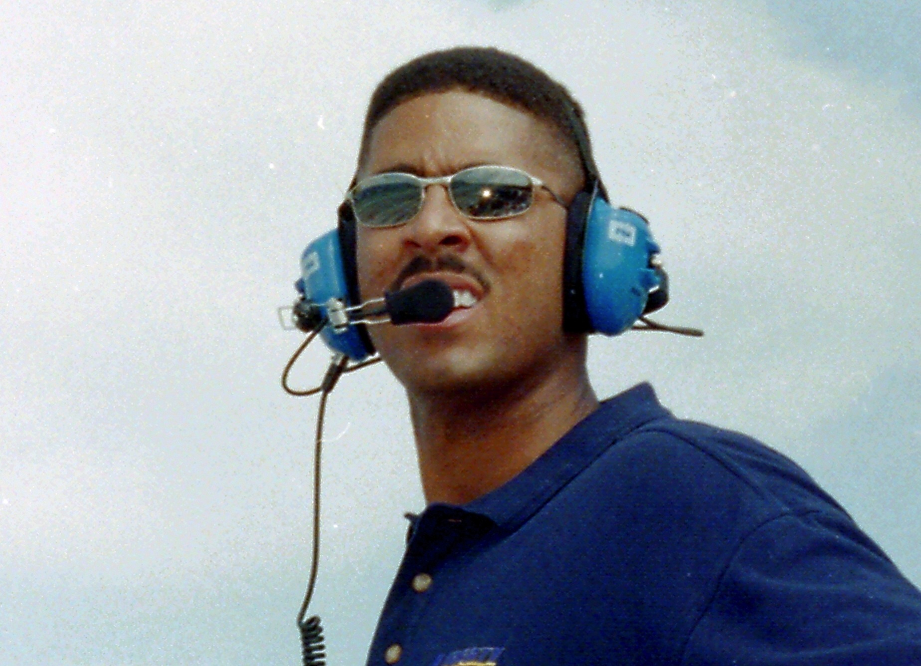 Former NBA Allstar Brad Daugherty was part of the #98 Raybestos NASCAR Craftsman Truck, which was driven by Kenny Erwin Jr.